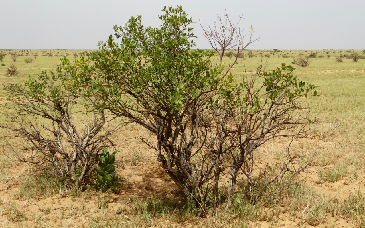 Boscia senegalensis bush photographed near Belbedji, Zinder Region, Niger